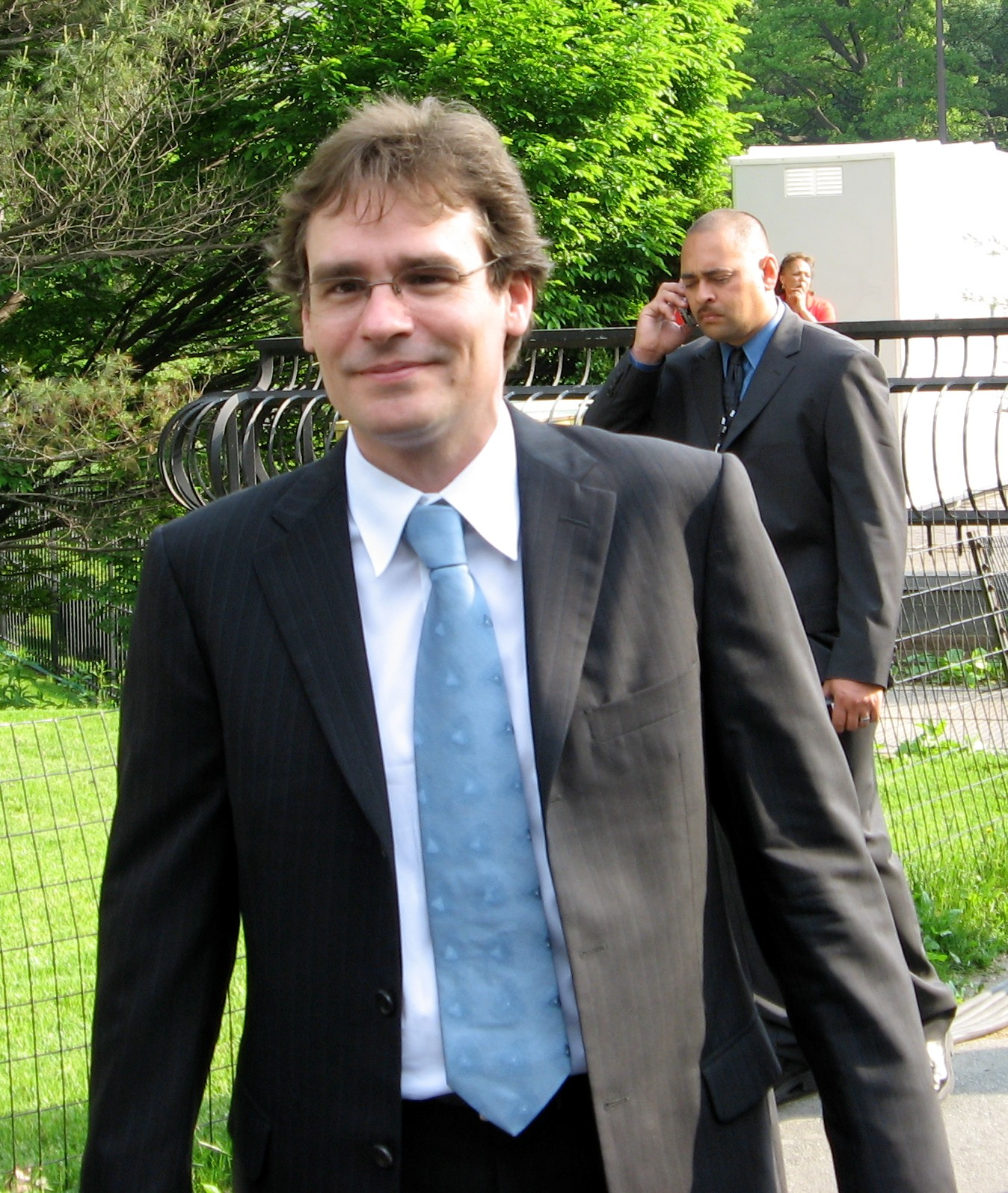 American actor Robert Sean Leonard, 17 May 2007.